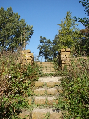 Garden on top of ruines of former castle Kleef at Haarlem in the Netherlands.